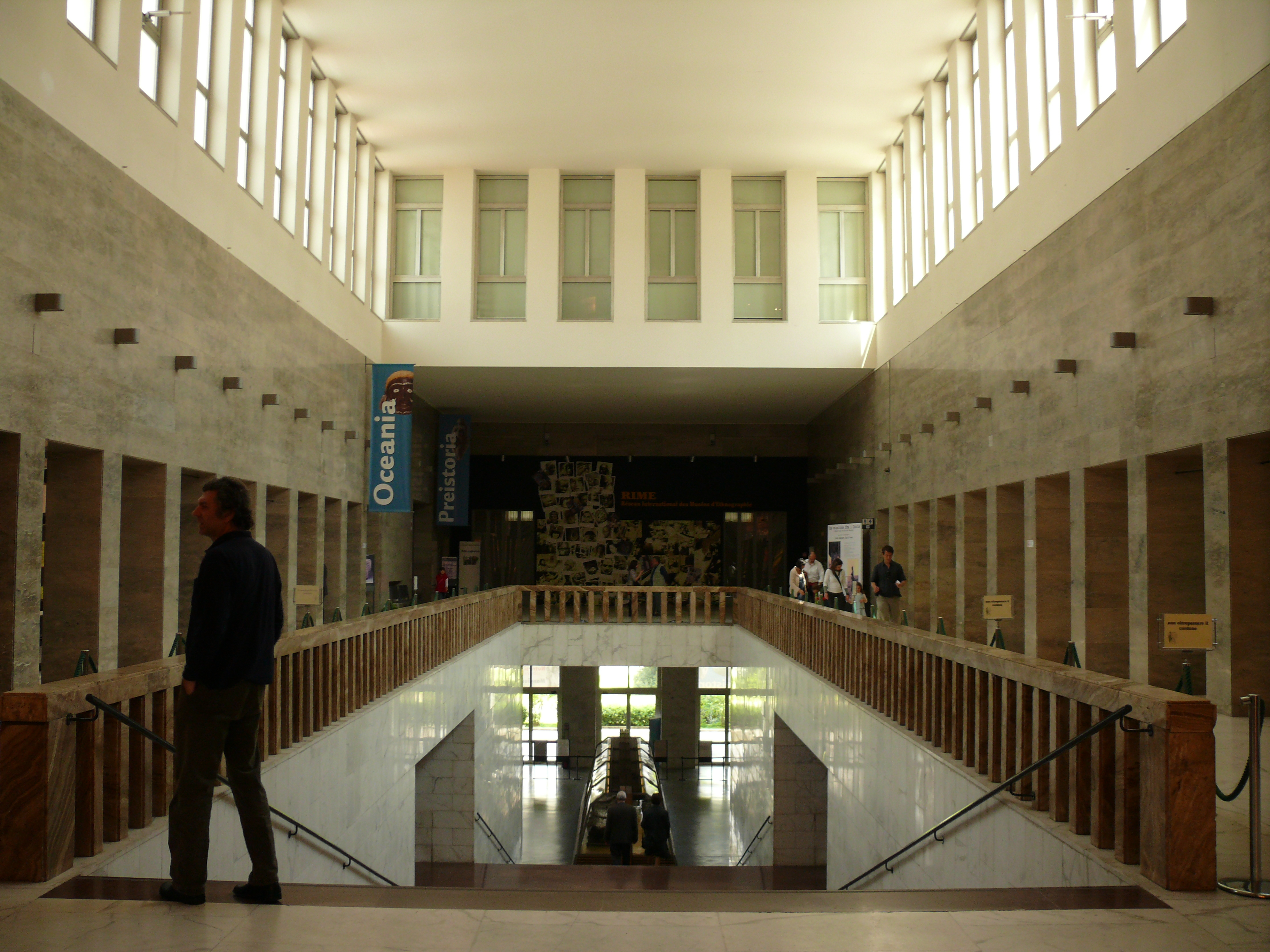 Pigorini National Museum of Prehistory and Ethnography rome - eur